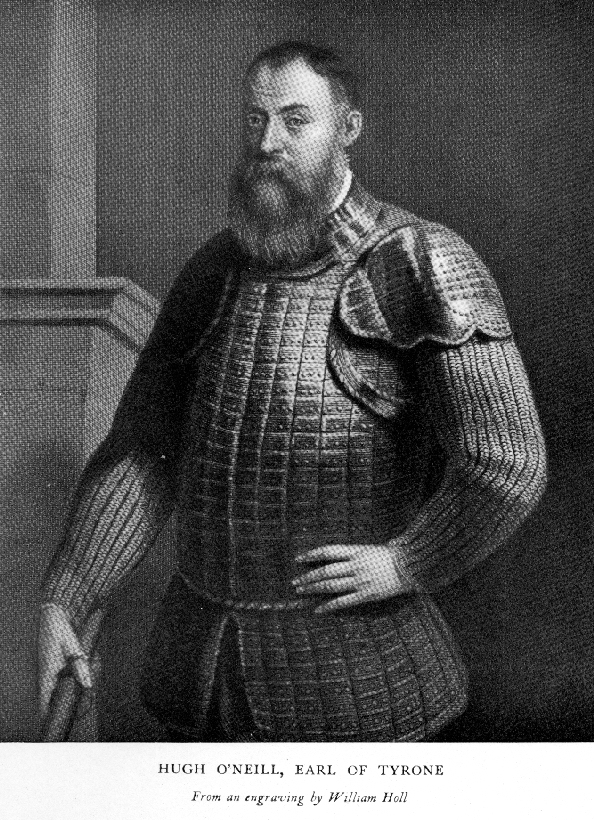 Hugh O'Neill, Earl of Tyrone